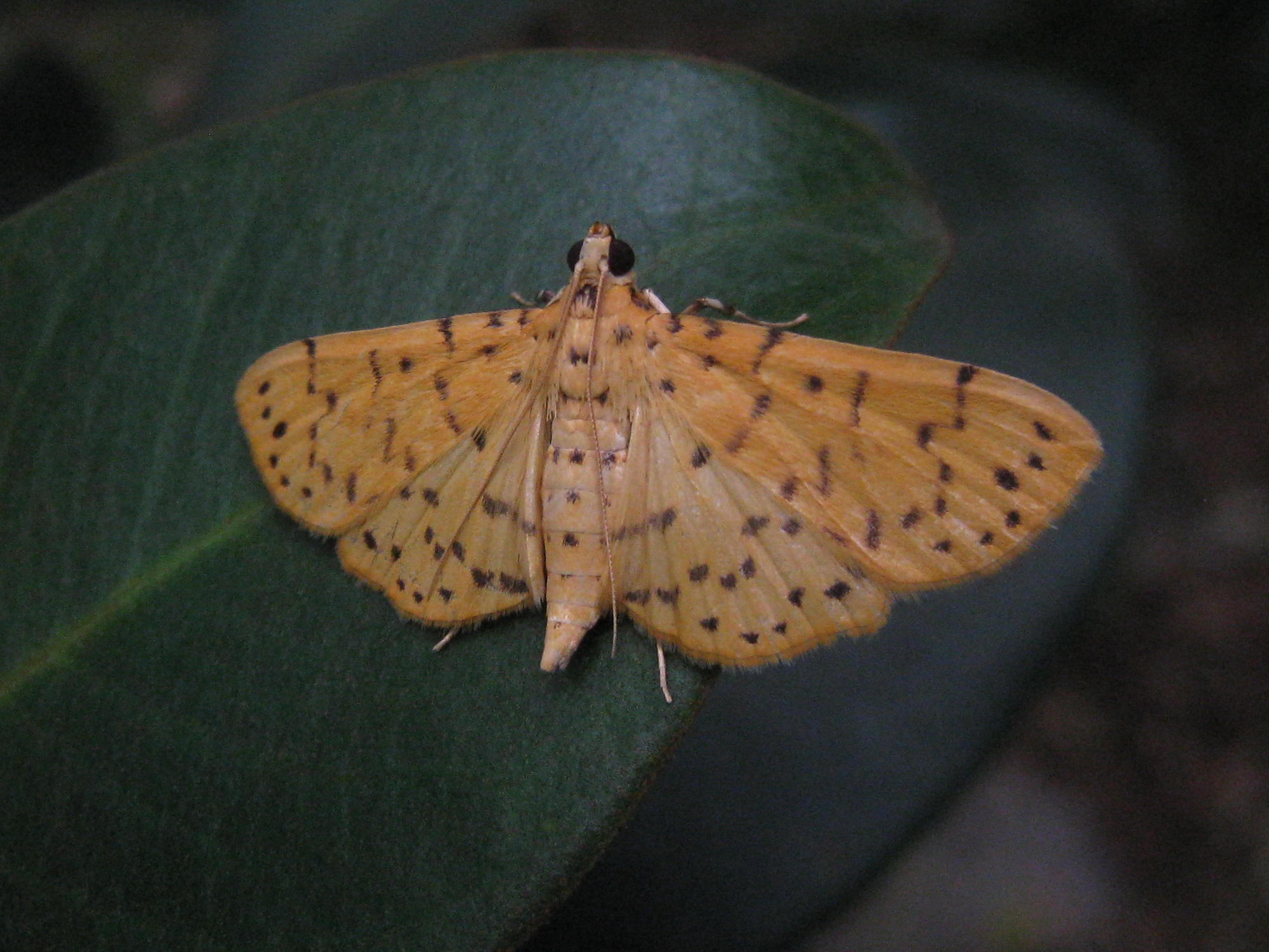 From the family of snout moths, Conogethes punctiferalis. Paruna Reserve, Como NSW Australia, January 2010.